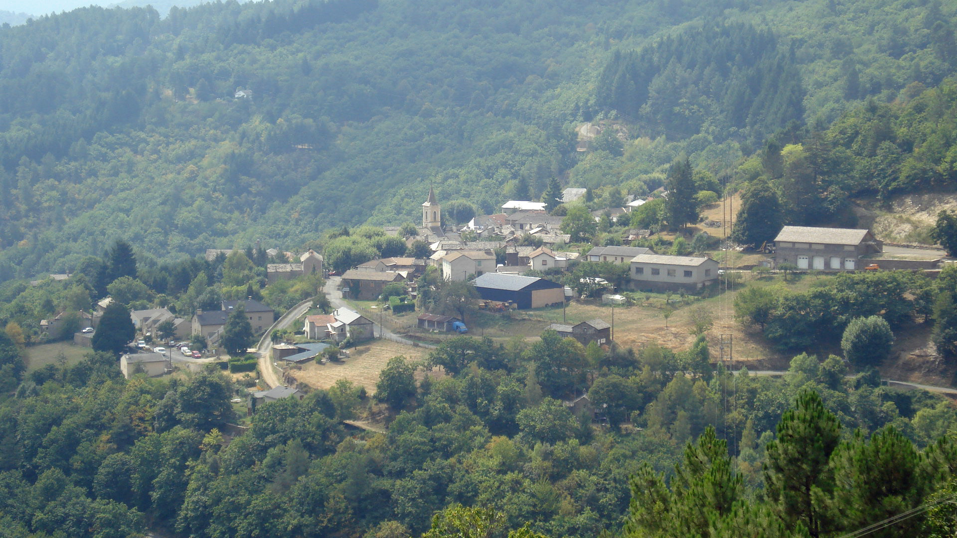 the village'of St Germainde Calberte view from the west